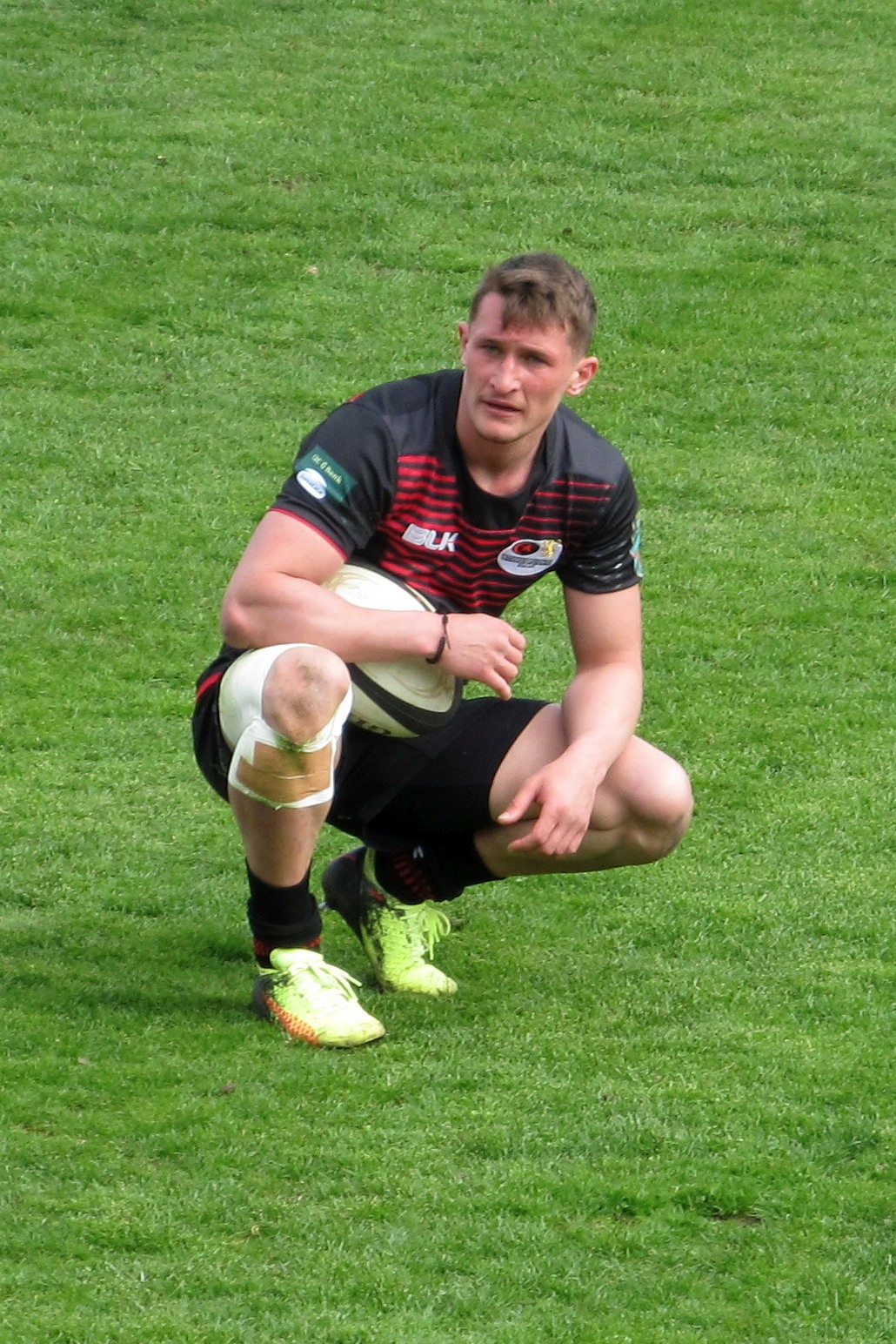 Romanian rugby union football player Gabriel Rupanu during the 2019 Cupa României Final match between his team, Timișoara Saracens, and rivals CSM București in March 2019